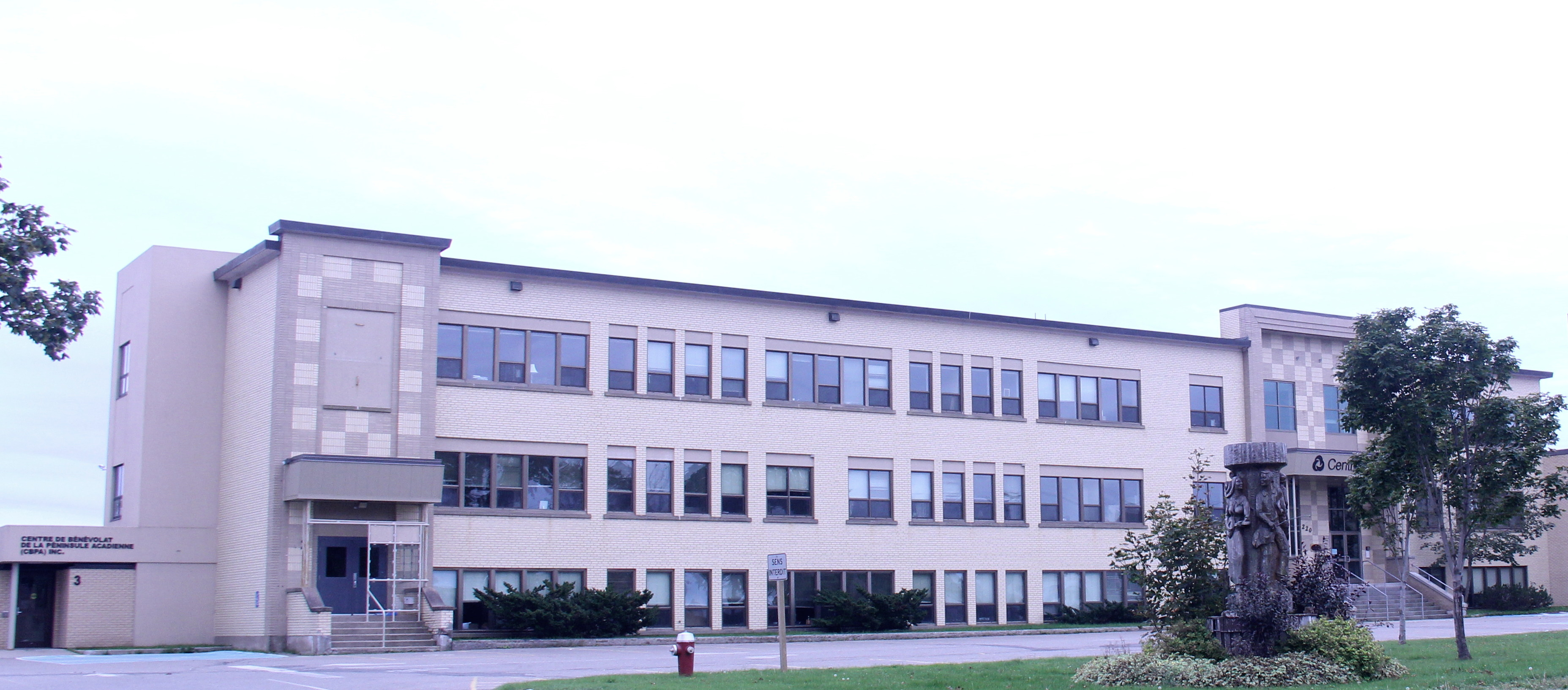 visit